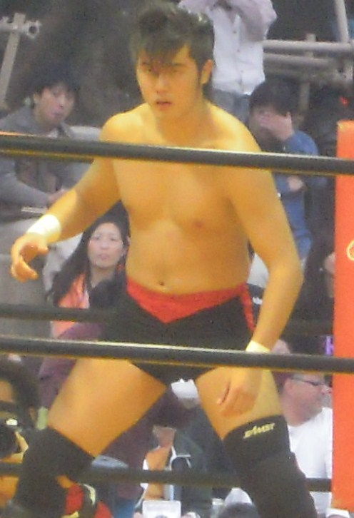 Japanese professional wrestler, Daichi Hashimoto. Oct 2 2011 ZERO1 Yasukuni Shrine.